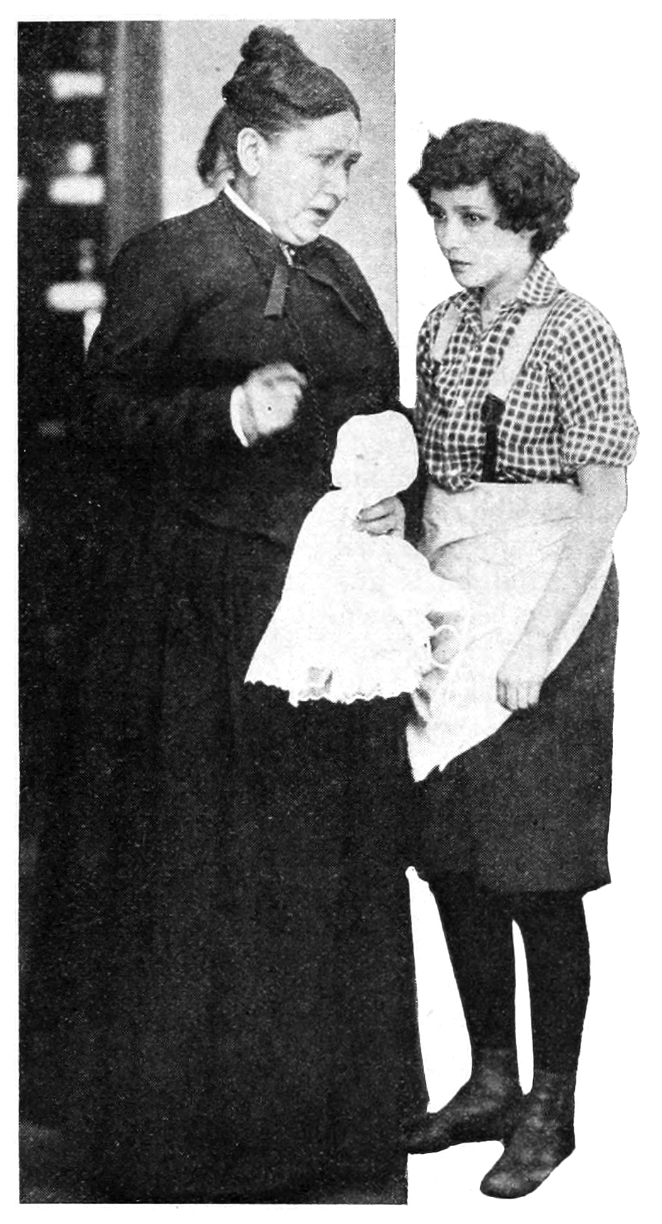 Josephine Crowell and Bessie Love in Cheerful Givers (1917), published in Photoplay Magazine